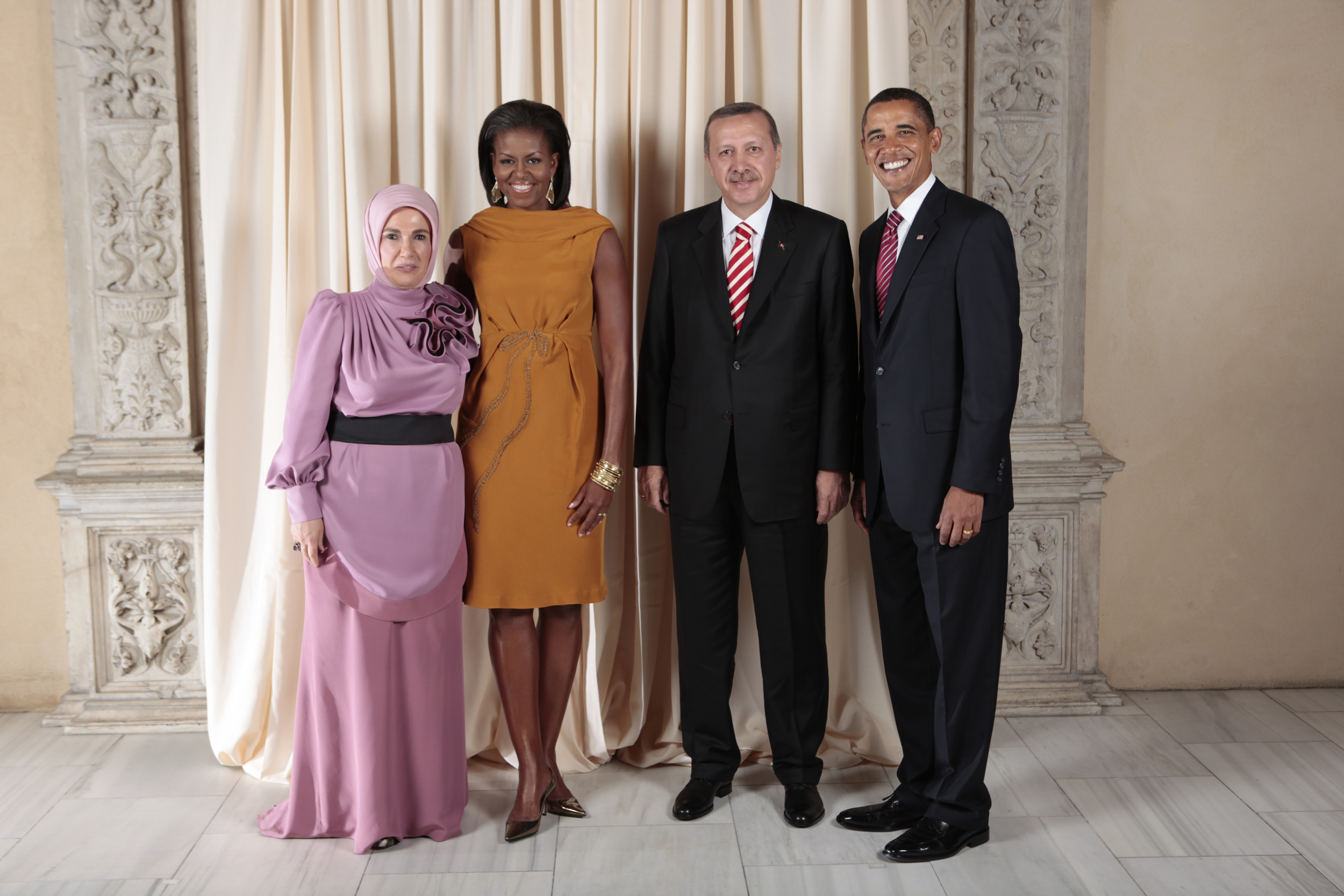 President Barack Obama and First Lady Michelle Obama pose for a photo during a reception at the Metropolitan Museum in New York with Recep Tayyip Erdogan of Turkey.